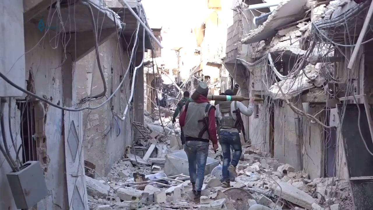 Syrian rebels carry RPG-29 anti-tank missiles Qaboun, Damascus.